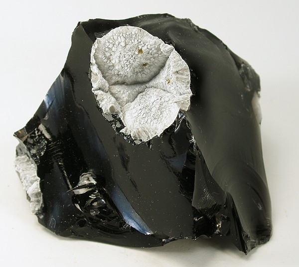 Cristobalite, Fayalite, obsidian Locality: Canyon Butte occurrence (Couger Butte), Canyon Butte, Siskiyou County, California, USA (Locality at ) Size: 5.8 x 5.8 x 4.4 cm. A visual and showy specimen of a 2.5 cm "eye" of high-temperature cristobalite nicely set in highly lustrous, jet-black obsidian from an uncommon California locale - the Couger Butte, Siskiyou County. The "eye" has three clusters of gemmy, olive-green, micro-blades of fayalite, an olivine group mineral. Obsidian (volcanic glass) cools too quickly to crystallize. Thus, it is unusual to see minerals attached. The "eyes" or spheres of high temperature cristobalite (SiO2) are actually the result of devitrification, or loss of silica from the obsidian.